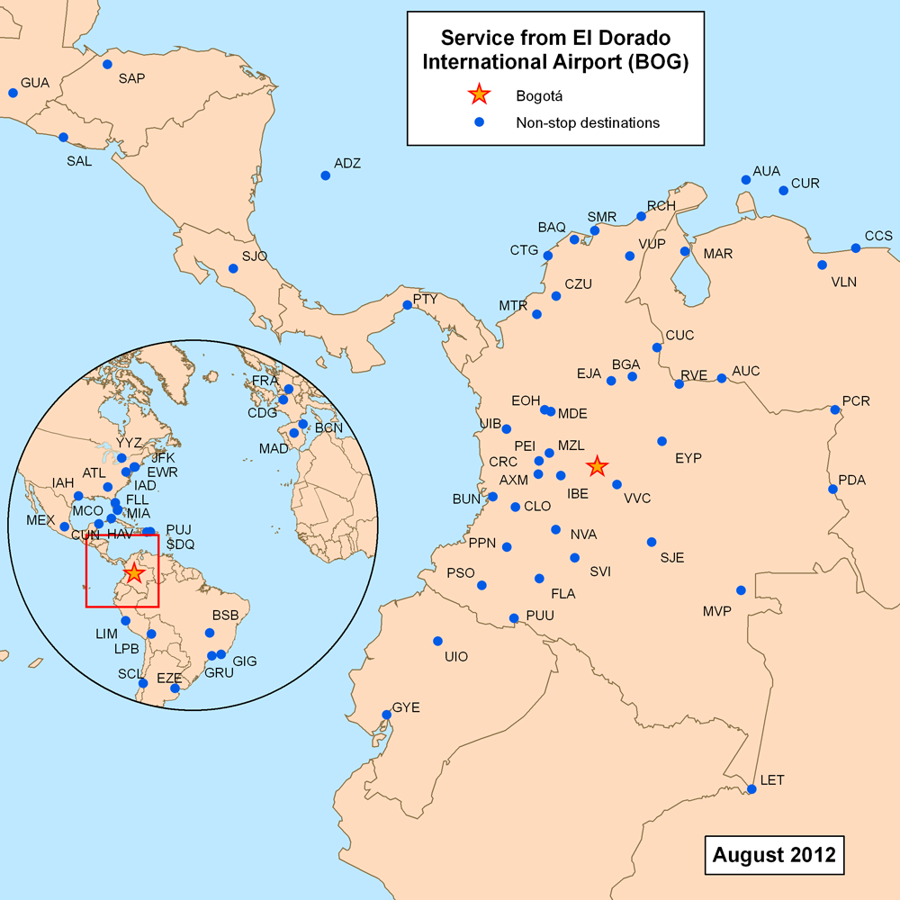 This is a route map for El Dorado International Airport in Bogotá as of March 2010. Map is an Azimuthal equidistant projection centered on the airport so straight lines from Bogotá are along great circle routes. Destinations gathered from individual airline websites.